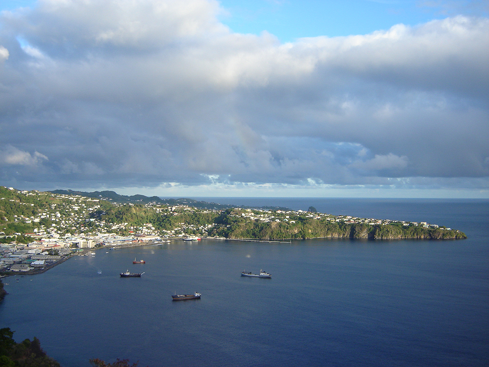 Harbour in Kingstown, St Vincent and Grenadines